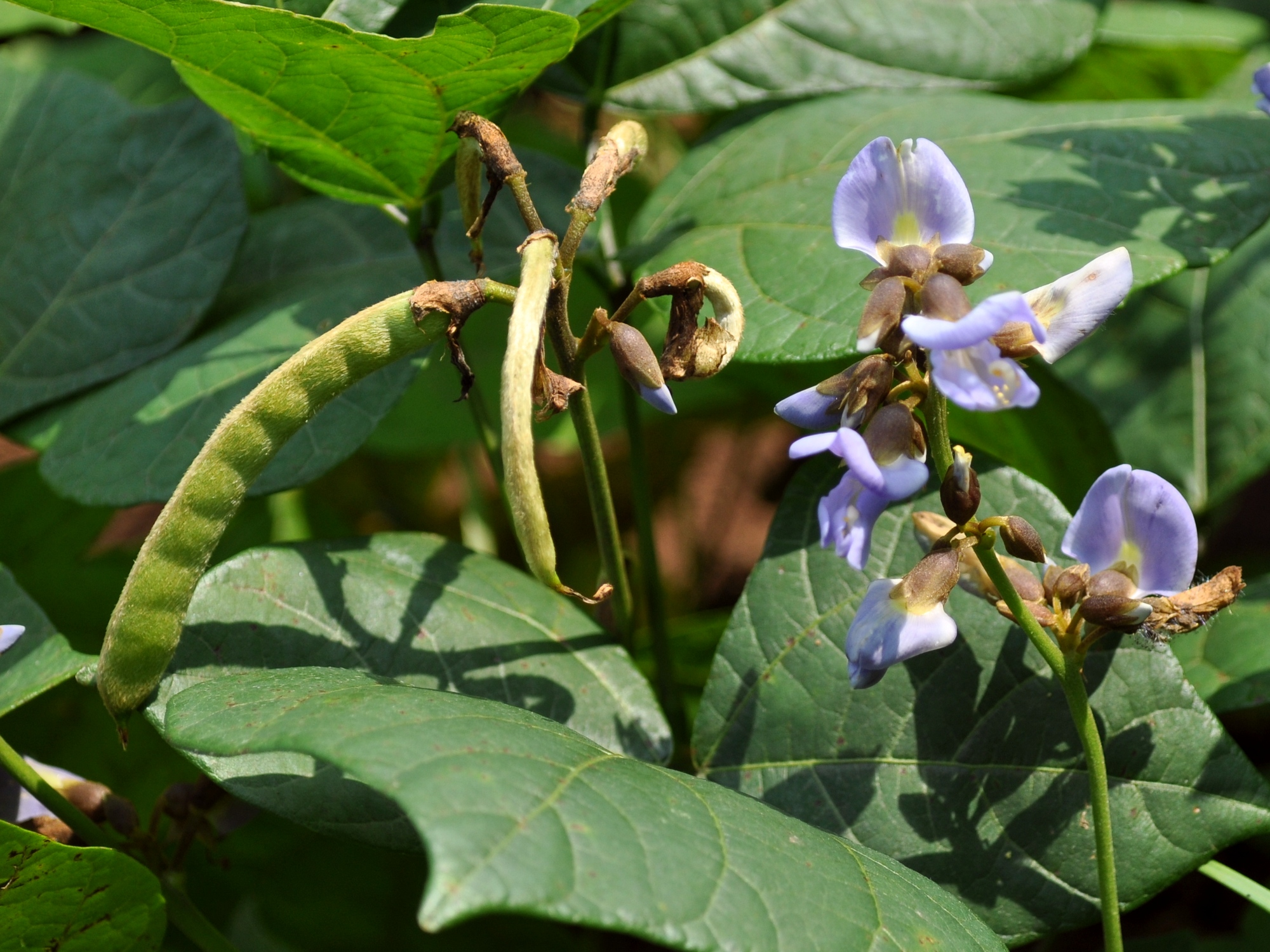 Xicama, Pachyrhizus erosus; flos et fructus. From Bogor, West Java, Indonesia.